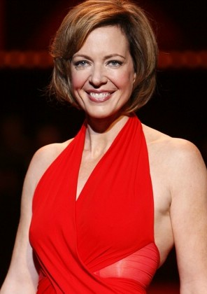 Allison Janney modeling at The Heart Truth Fashion Show 2008